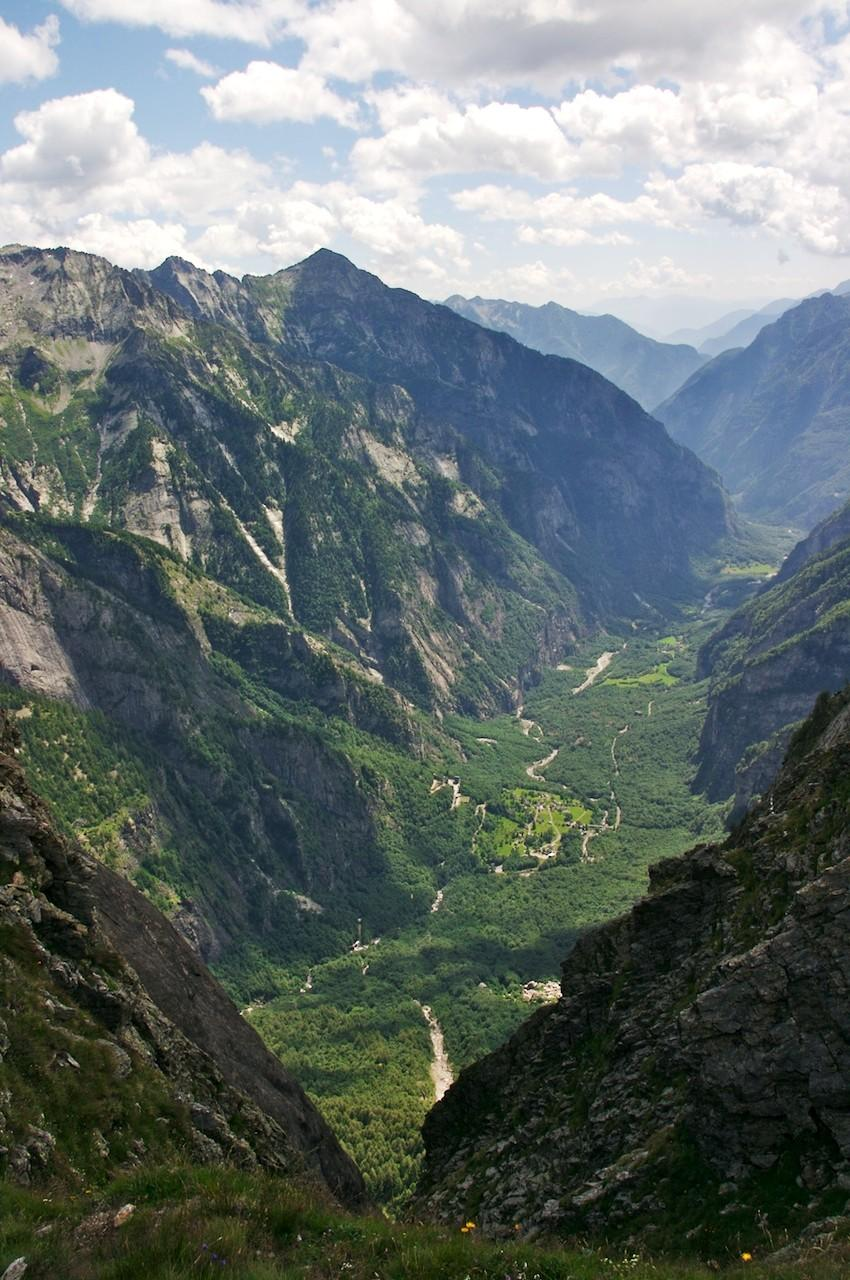 Val Bavona, canton of Ticino.